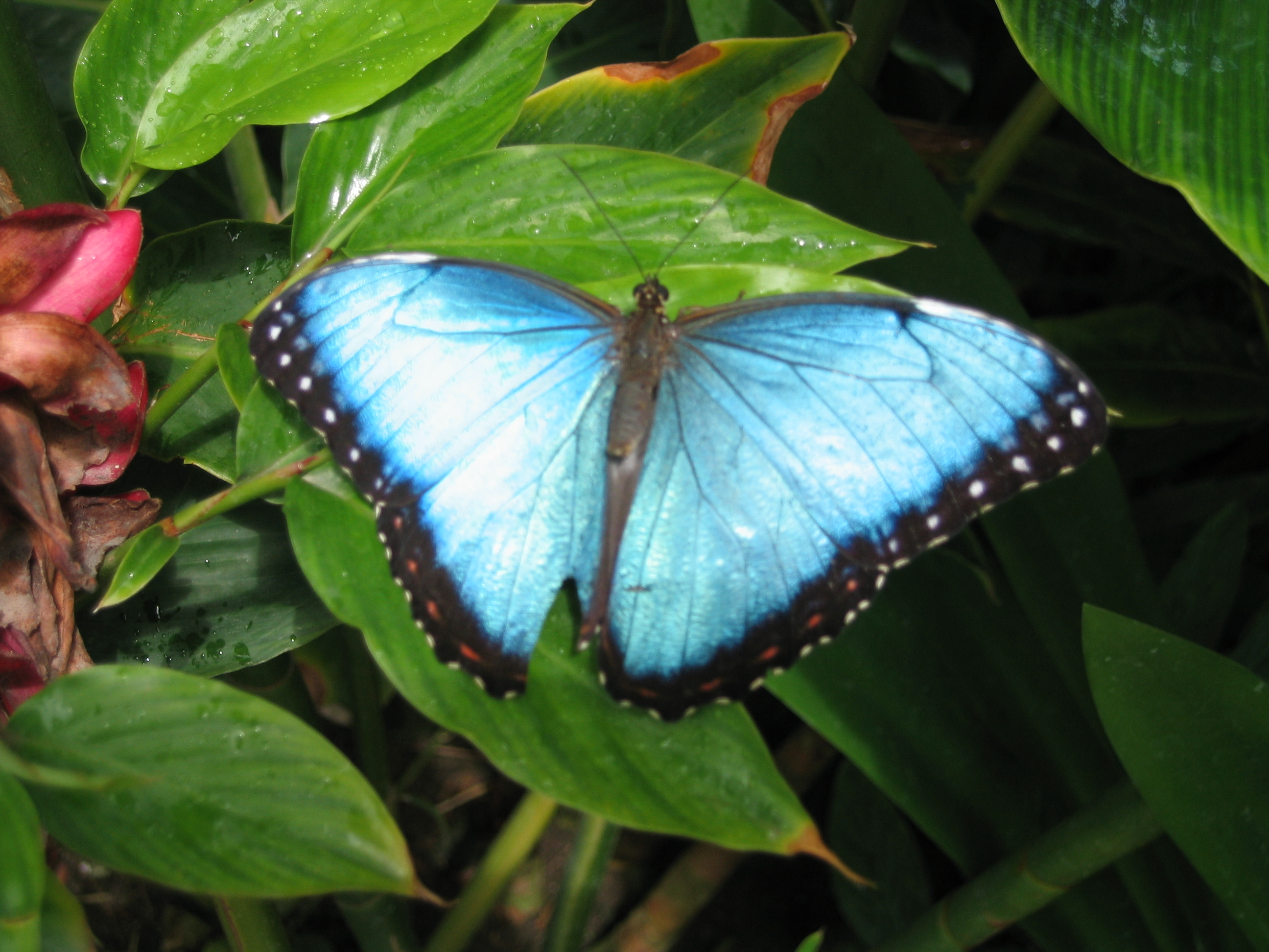 morpho peleides, butterfly at the Butterfly Farm on Antigua